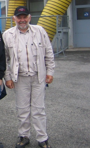 Karel Loprais